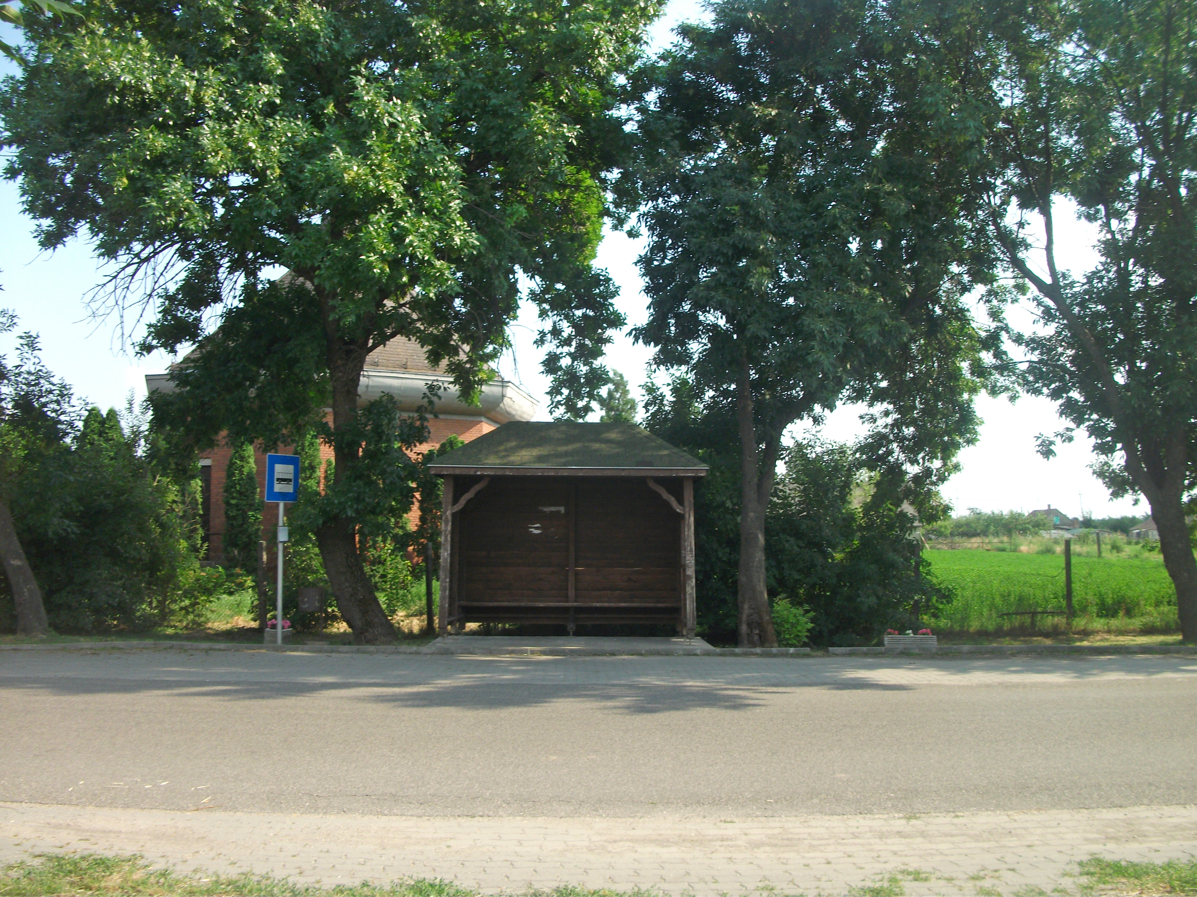 Bus stop in Zichyújfalu, Hungary.